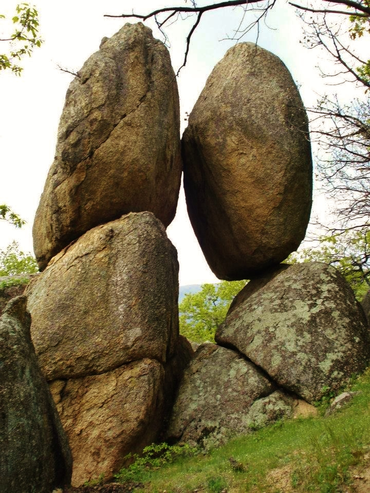 Arc at Momini gardi sanctuary Starosel Bulgaria